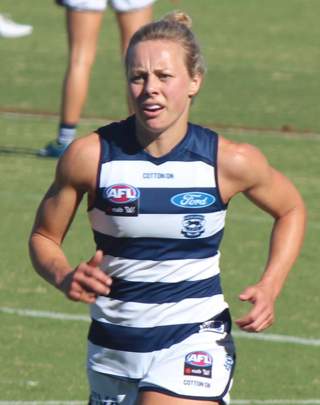 Renee Garing with Geelong during a match against Carlton at Kardinia Park in round 4 of the 2019 AFL Women's season.